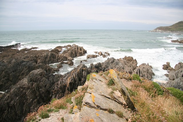 Morte Bay View from Grunta beach rocks